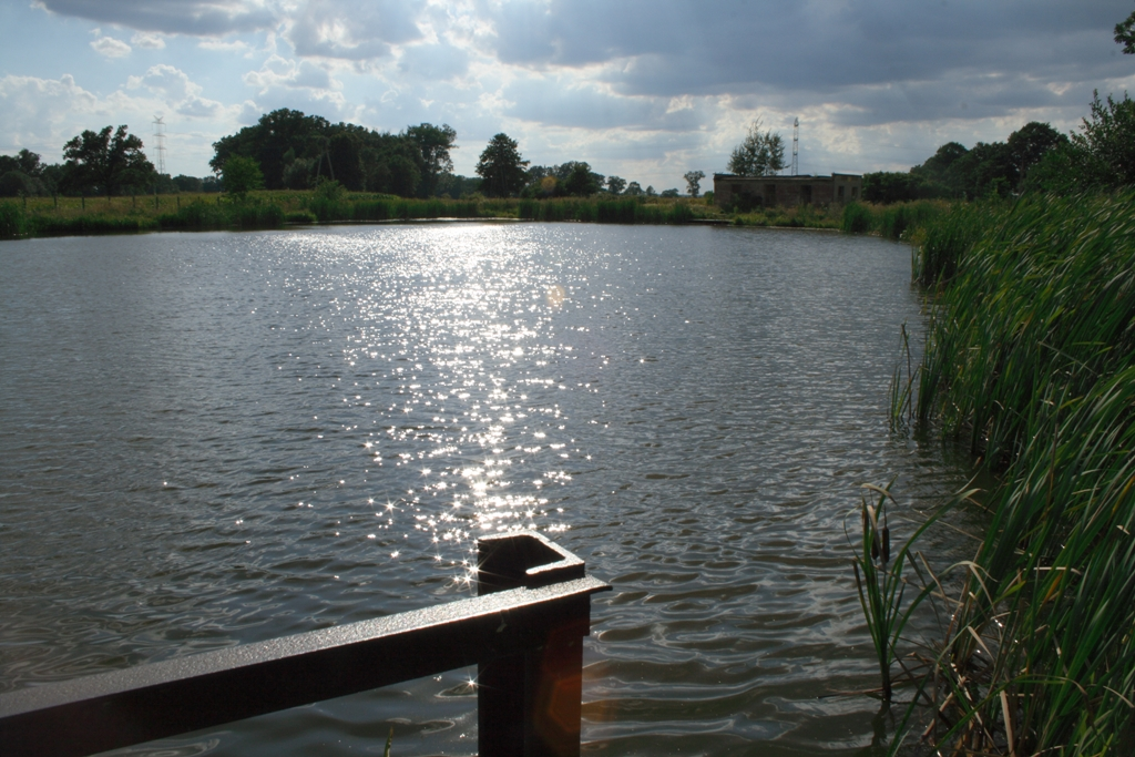 Fishpond in Domecko.